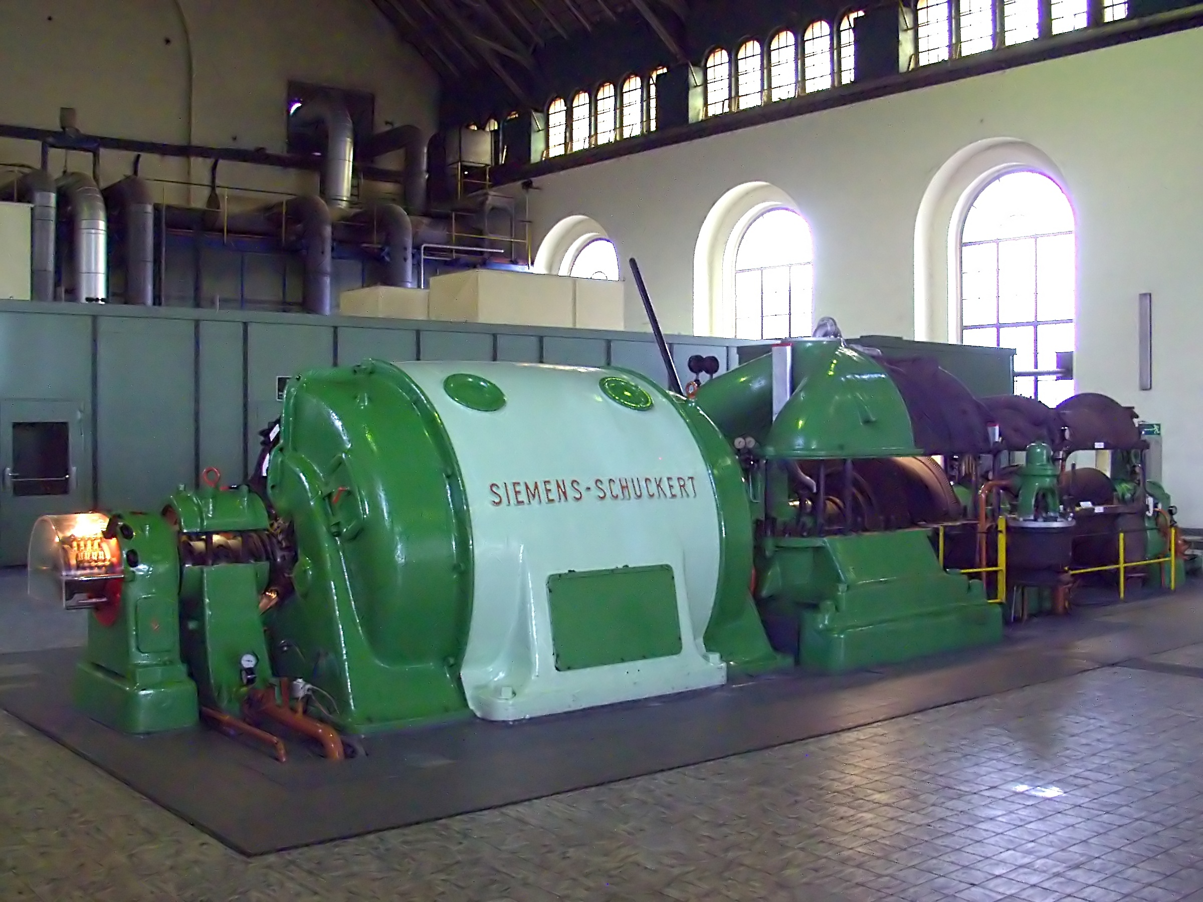 Siemens-Schuckert steam turbine with generator, Cologne